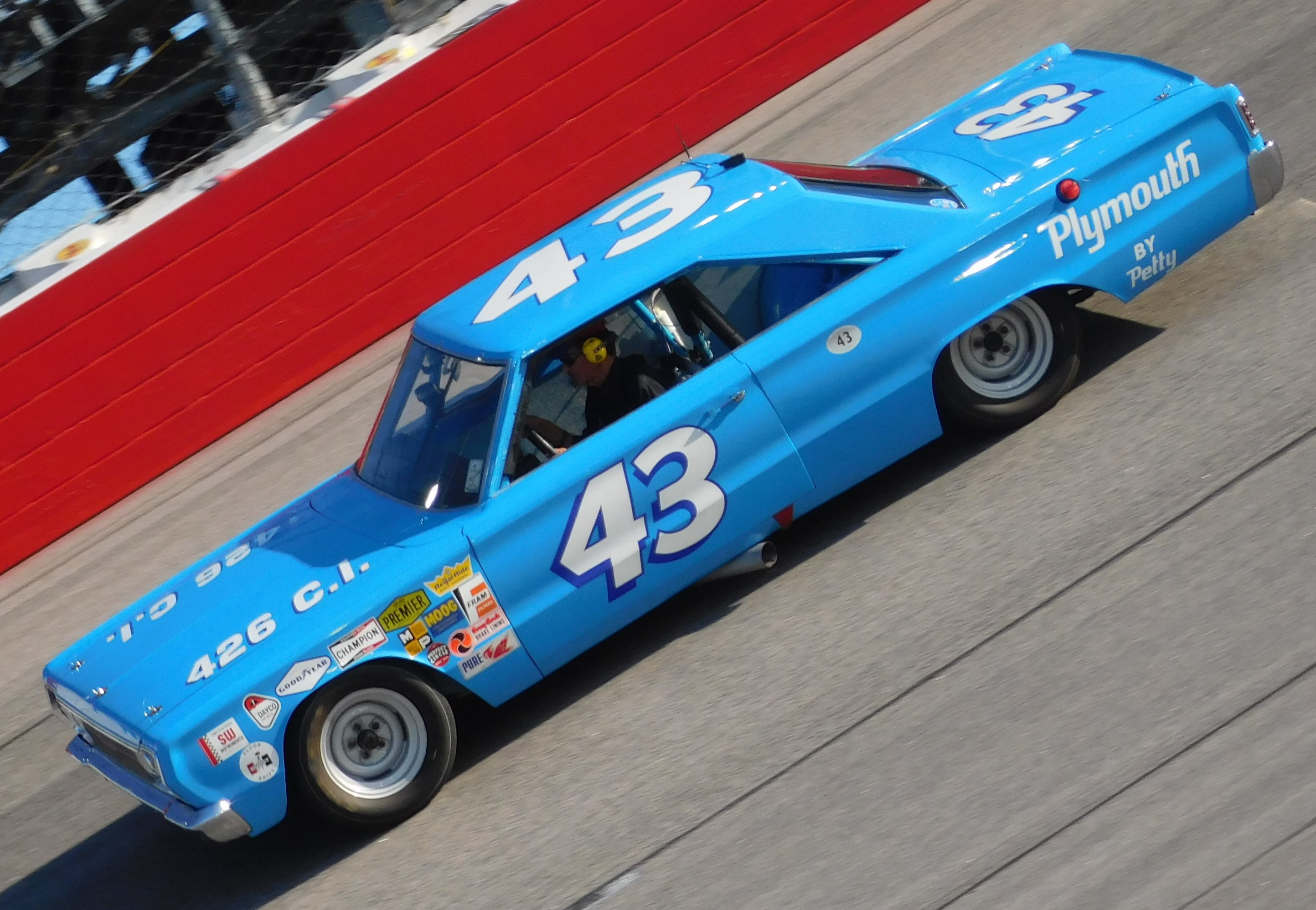 richard petty